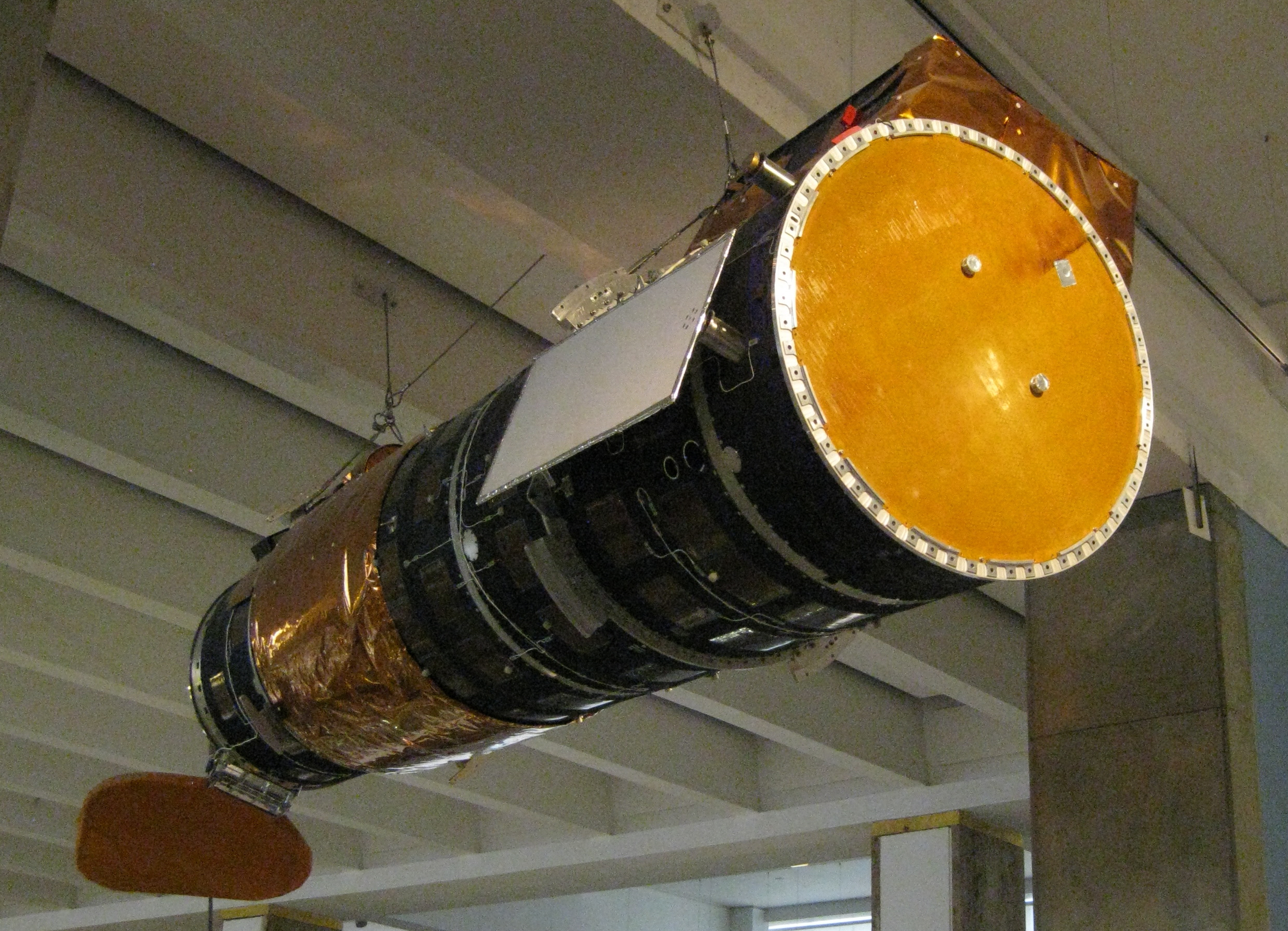 The Joint European Telescope for X-ray Astronomy. Item in the Science Museum, London. Inventory number 2009-45. This is an actual telescope which was completed in 1994, but never launched.